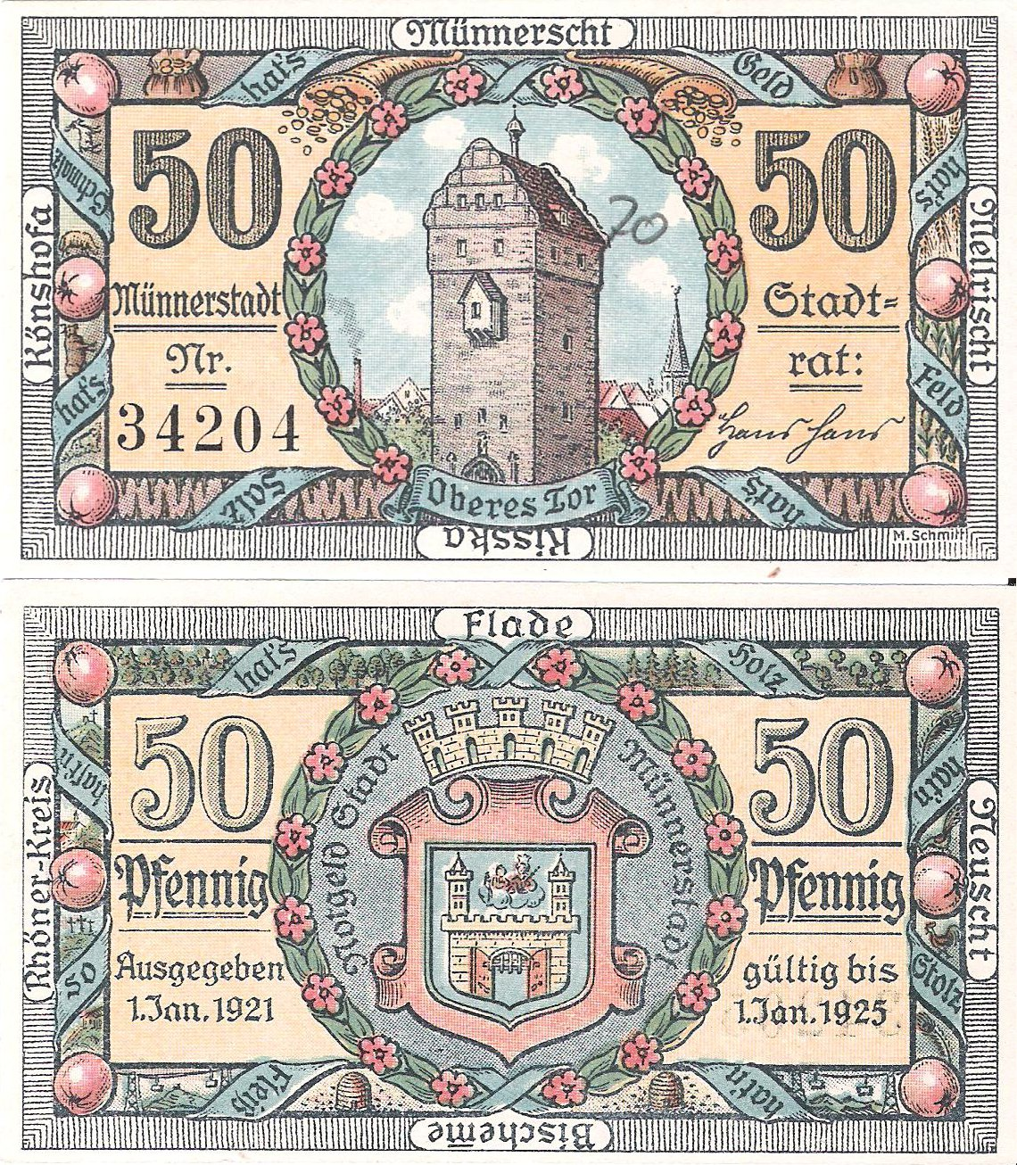 local emergency money, Münnerstadt